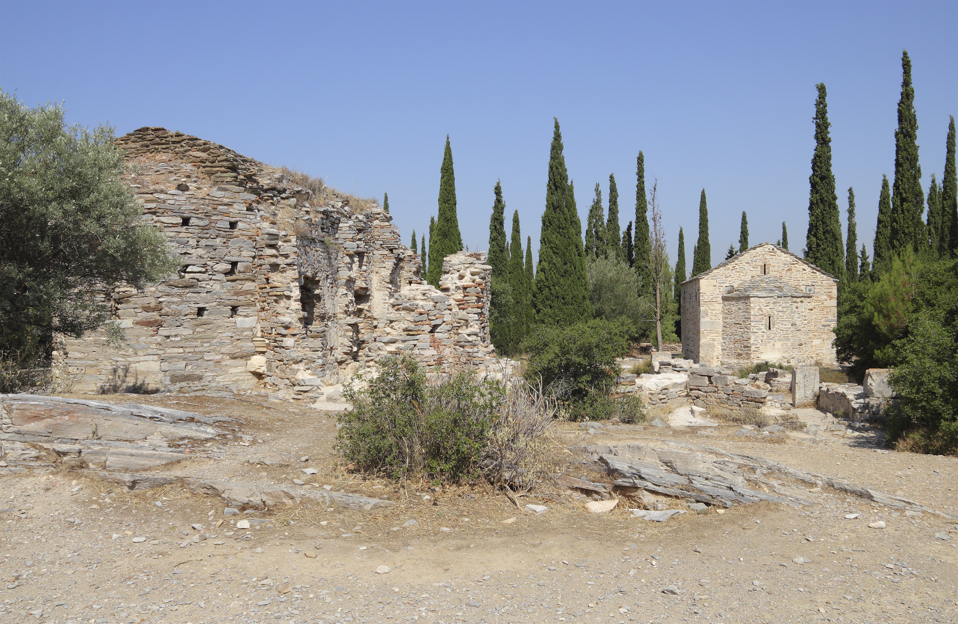 Ruins of an early-christian basilica on Kaisariani Hill near Zografou (Attica, Greece)